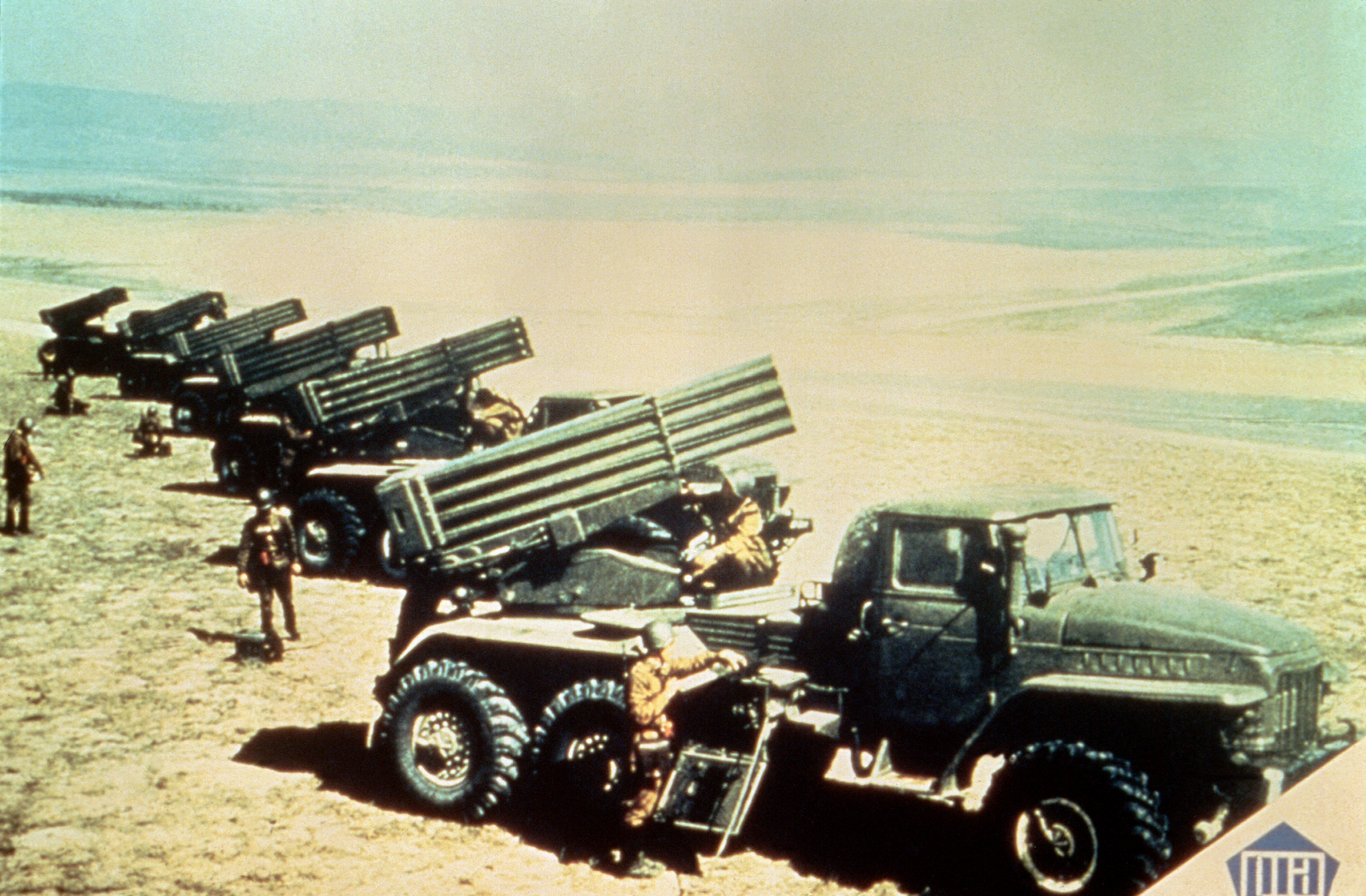 A right side view of six Soviet 122mm BM-21 multiple rocket launcher systems. The BM-21 consists of a Ural-375D truck chassis with a 40-round rocket launcher mounted on the rear of the hull. (Released to Public) ID: DA-ST-89-06607, date shot: 27 Apr 1989[1]